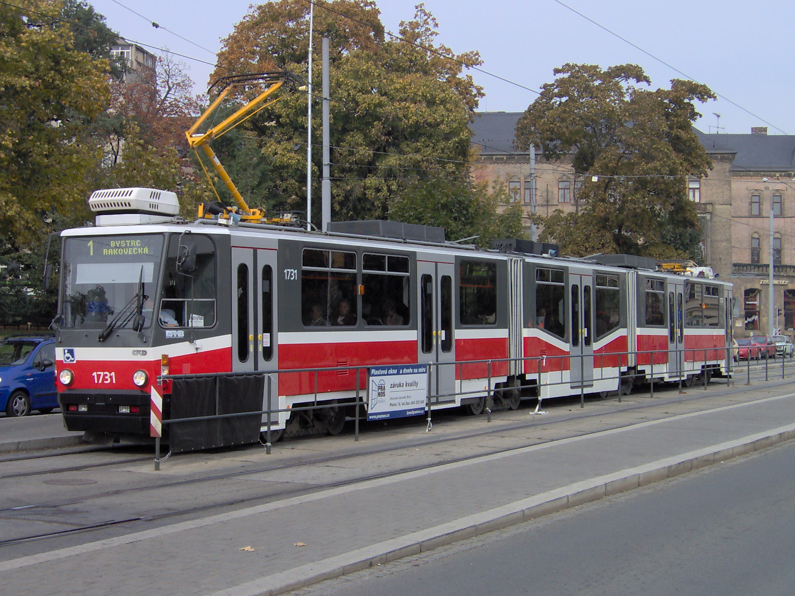 KT8D5N tram in Brno